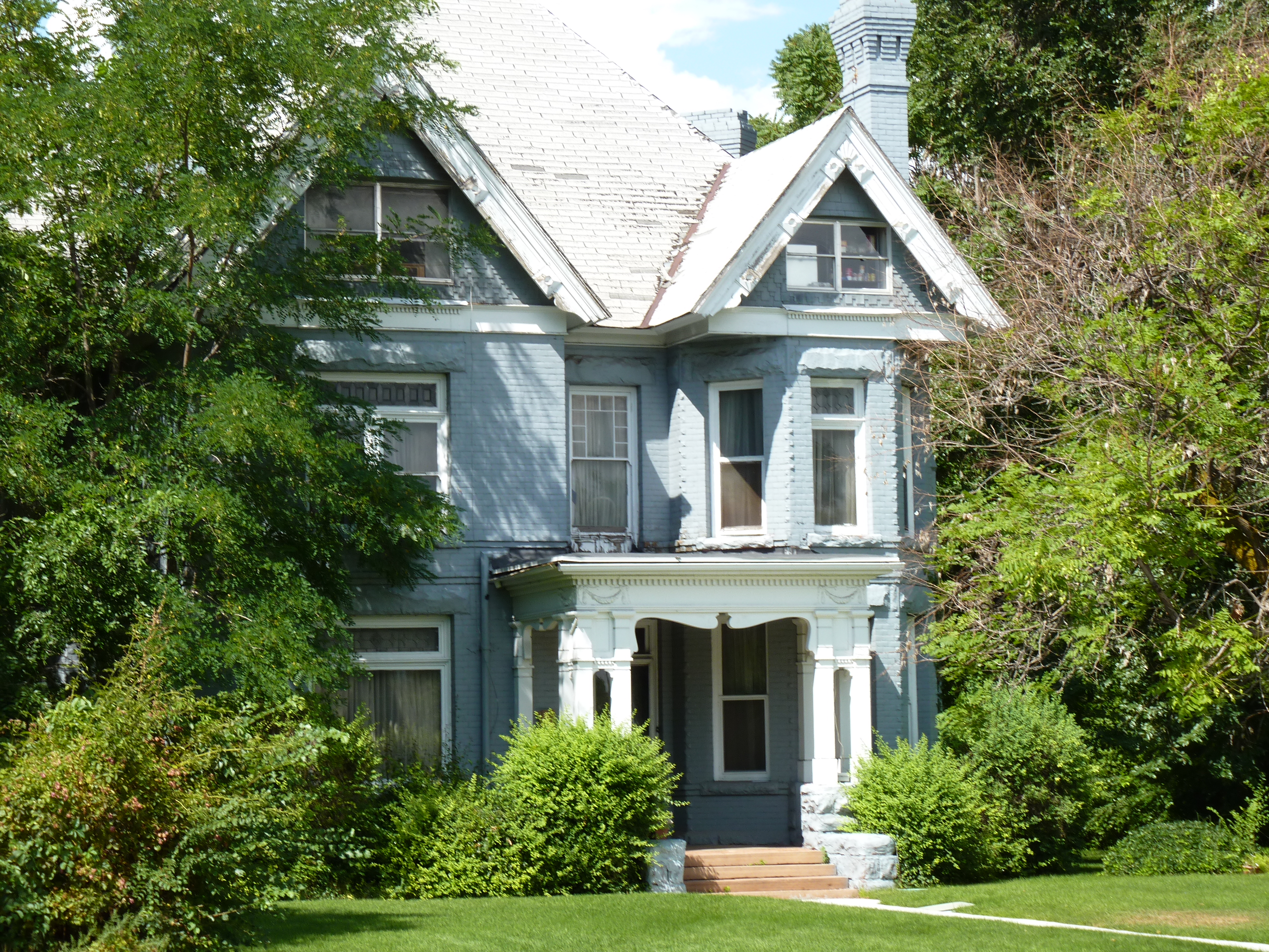 Samuel H. Allen Home 135 East 200 North